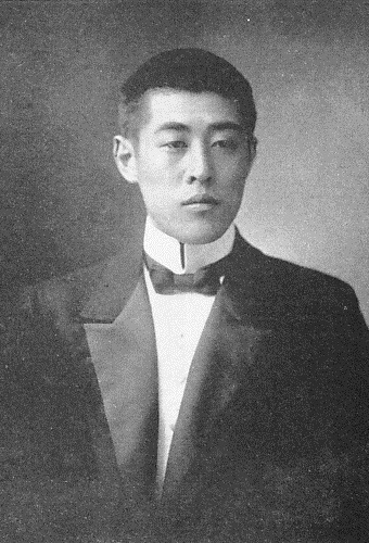 Masatsune Hotta